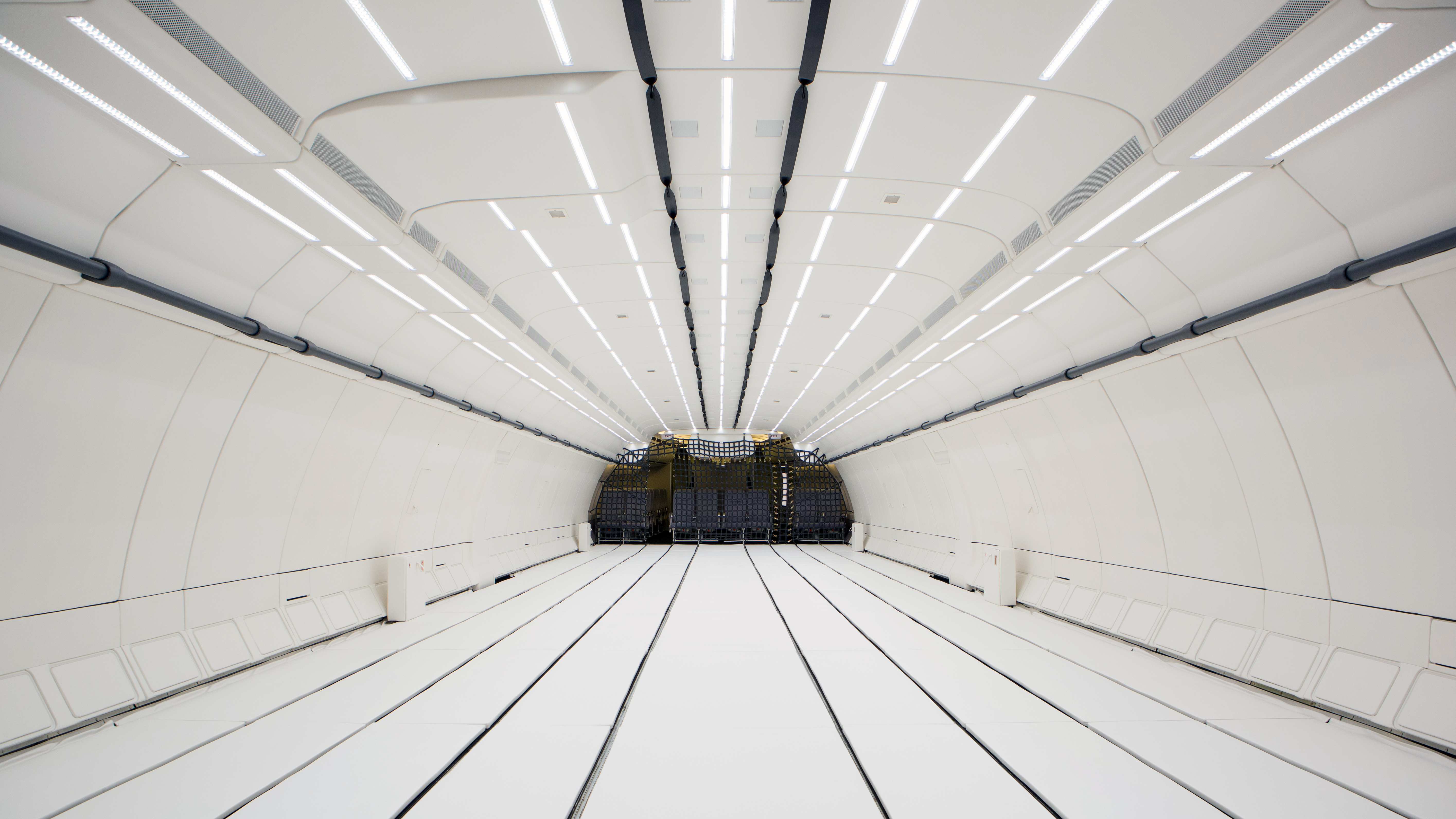 A310 ZERO G interior